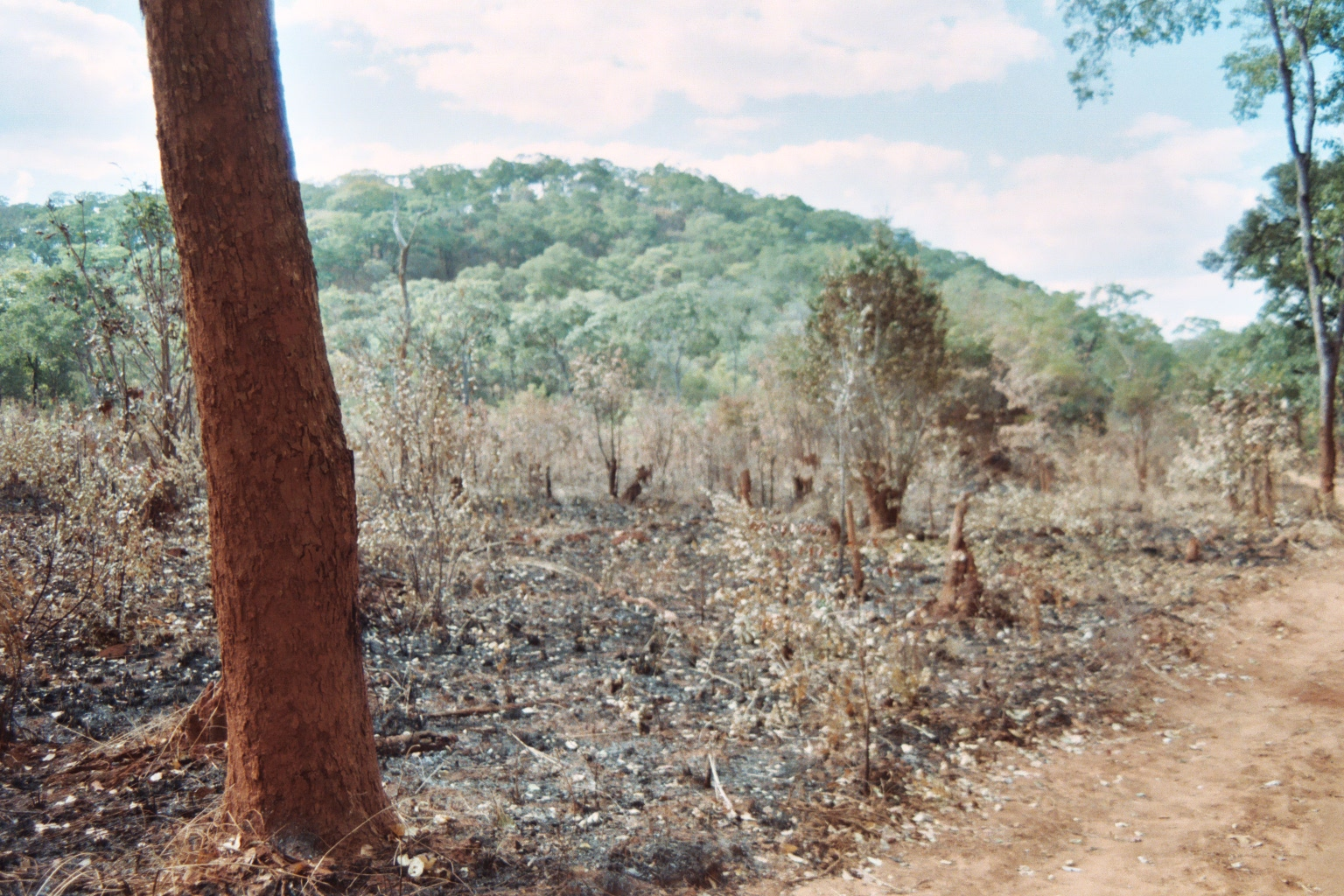 This is an example of a recovering area of slash-and-burn agriculture, or "Block Chitemene", taken 4 km south of Kelongwa Village, Kasempa District, Northwestern Province, Zambia.